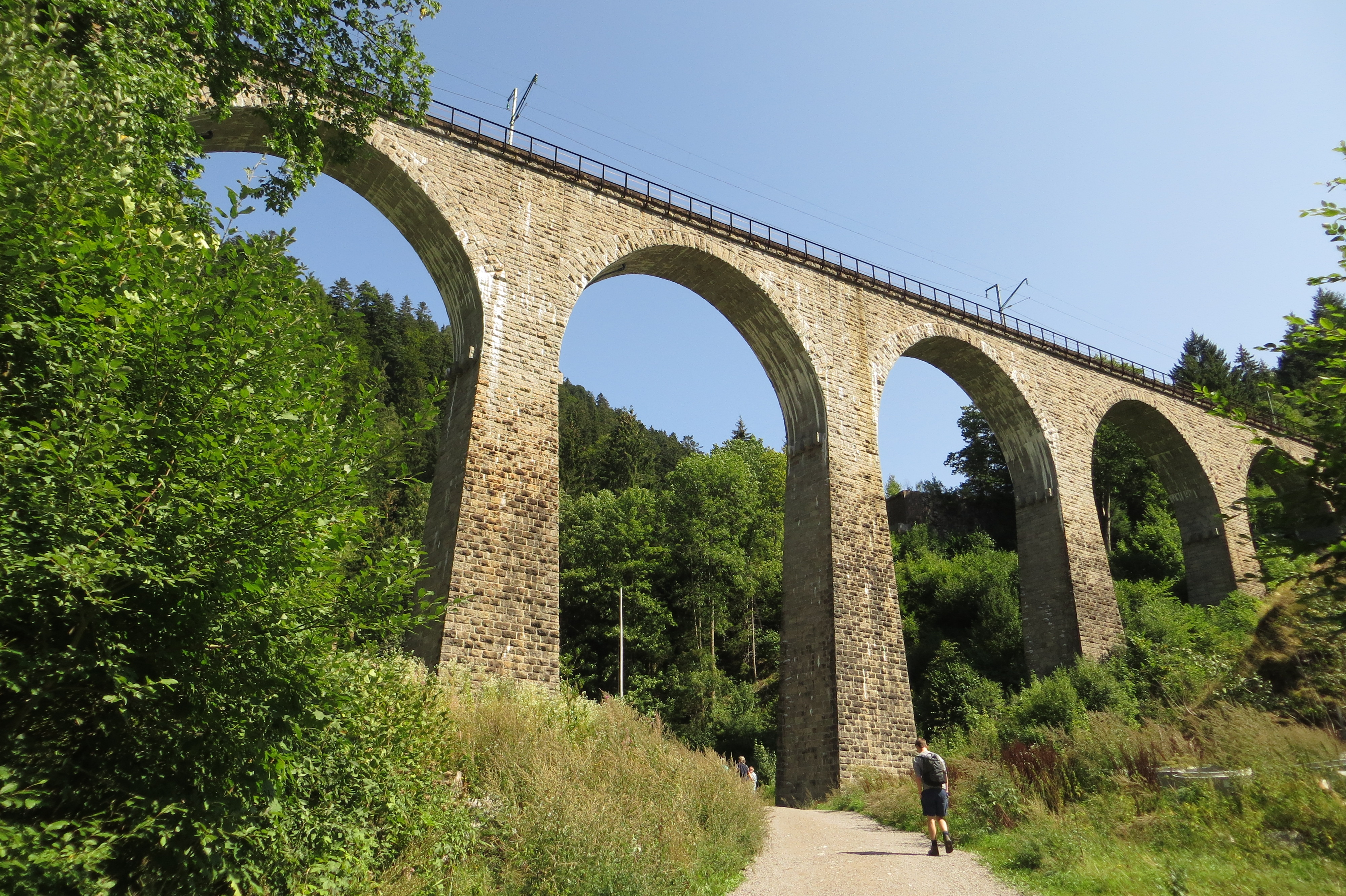 The Ravenna Bridge, a 58-m-high railway bridge on the Hoellental Railway in the Black Forest.